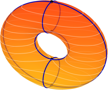 Flow lines for the height function on an upright torus, showing that the height function is Morse but not Morse-Smale. Selfmade with Mathematica.